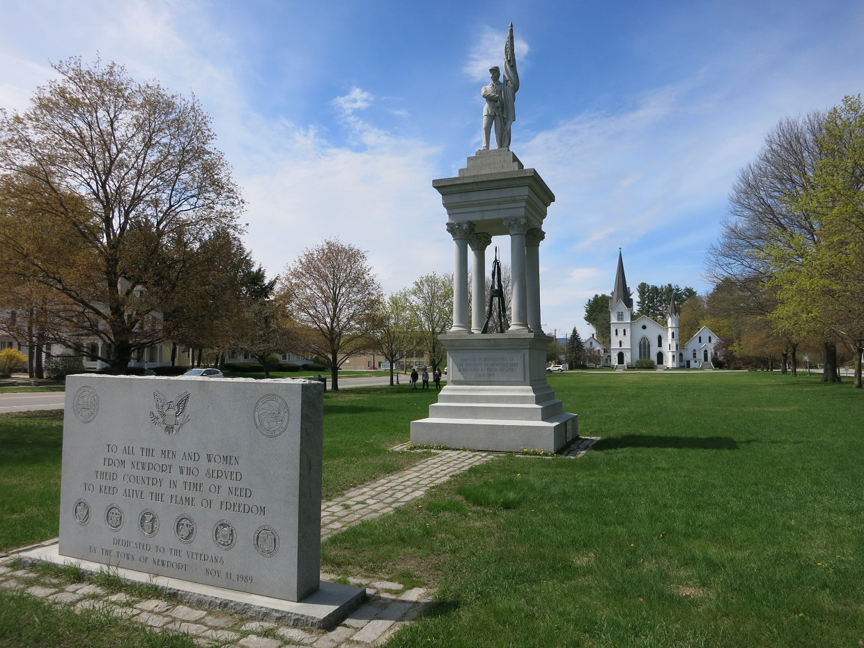 Photo shows two monuments dedicated to the town's veterans in the Newport, NH town common. The one at left was dedicated in 1989 and the one at center was dedicated in 1912. View is toward the northwest.